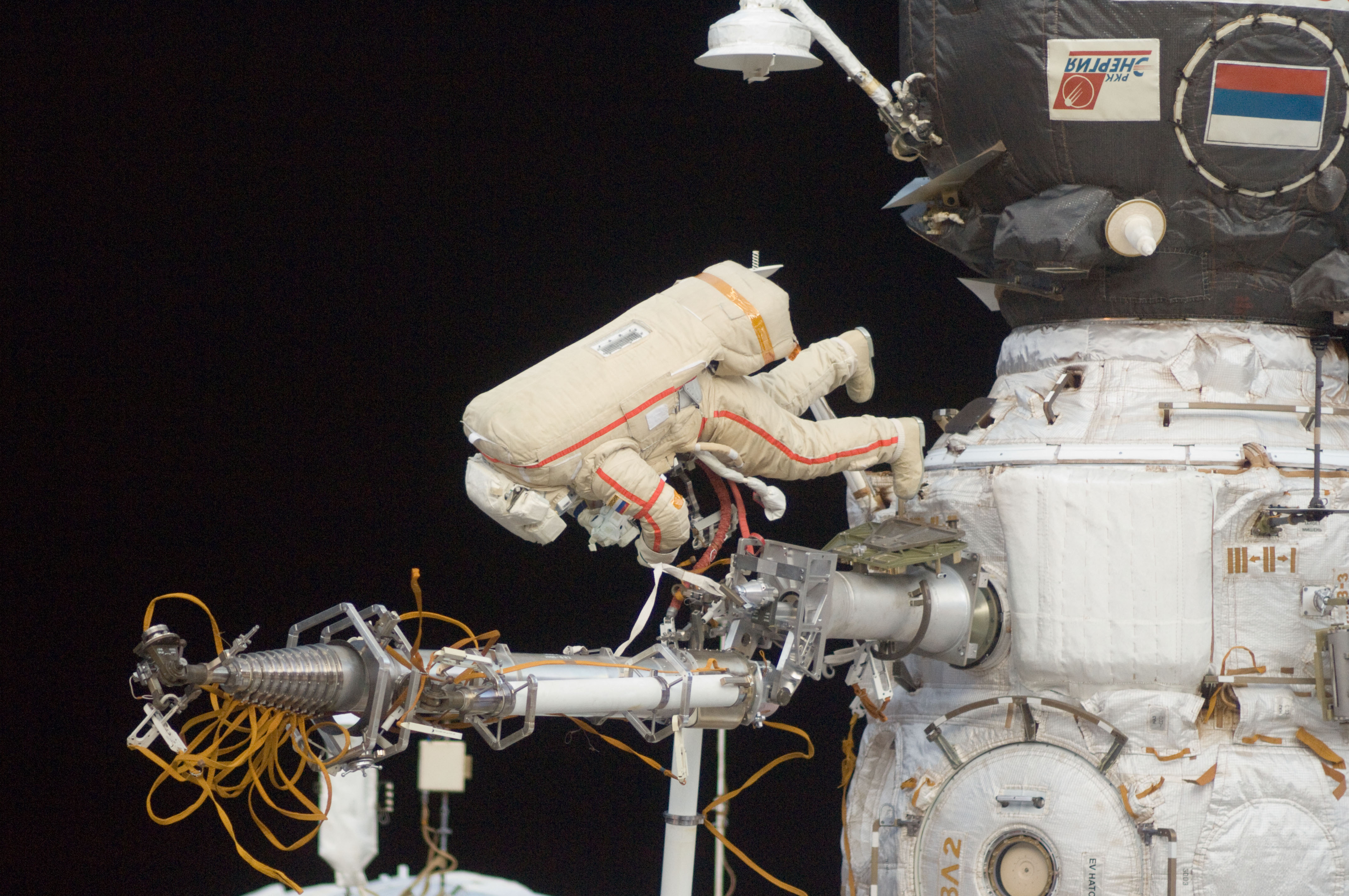 Russian cosmonaut Gennady Padalka, Expedition 32 commander, participates in a session of extravehicular activity (EVA) to continue outfitting the International Space Station. During the five-hour, 51-minute spacewalk, Padalka and Russian cosmonaut Yuri Malenchenko (out of frame), flight engineer, moved the Strela-2 cargo boom from the Pirs docking compartment to the Zarya module to prepare Pirs for its eventual replacement with a new Russian multipurpose laboratory module. The two spacewalking cosmonauts also installed micrometeoroid debris shields on the exterior of the Zvezda service module and deployed a small science satellite.